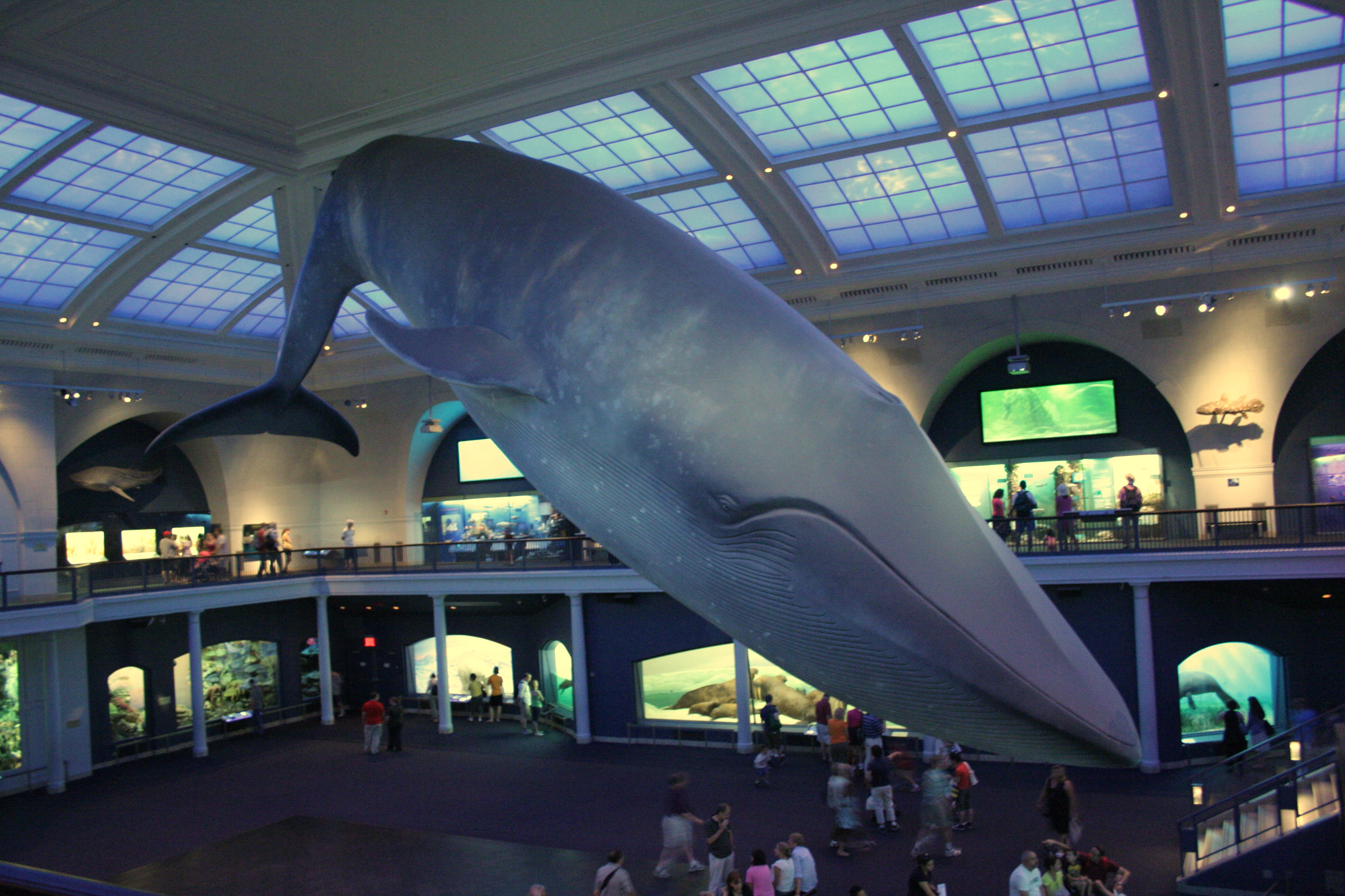 Blue Whale